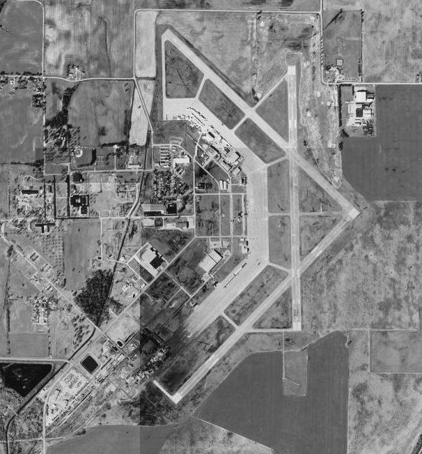 USGS digital orthophoto of Walnut Ridge Regional Airport in Walnut Ridge, Lawrence County, Arkansas, United States